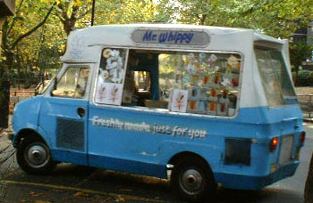 Ice Cream Van, taken summer 2003 in London by C Ford (colour adjusted)